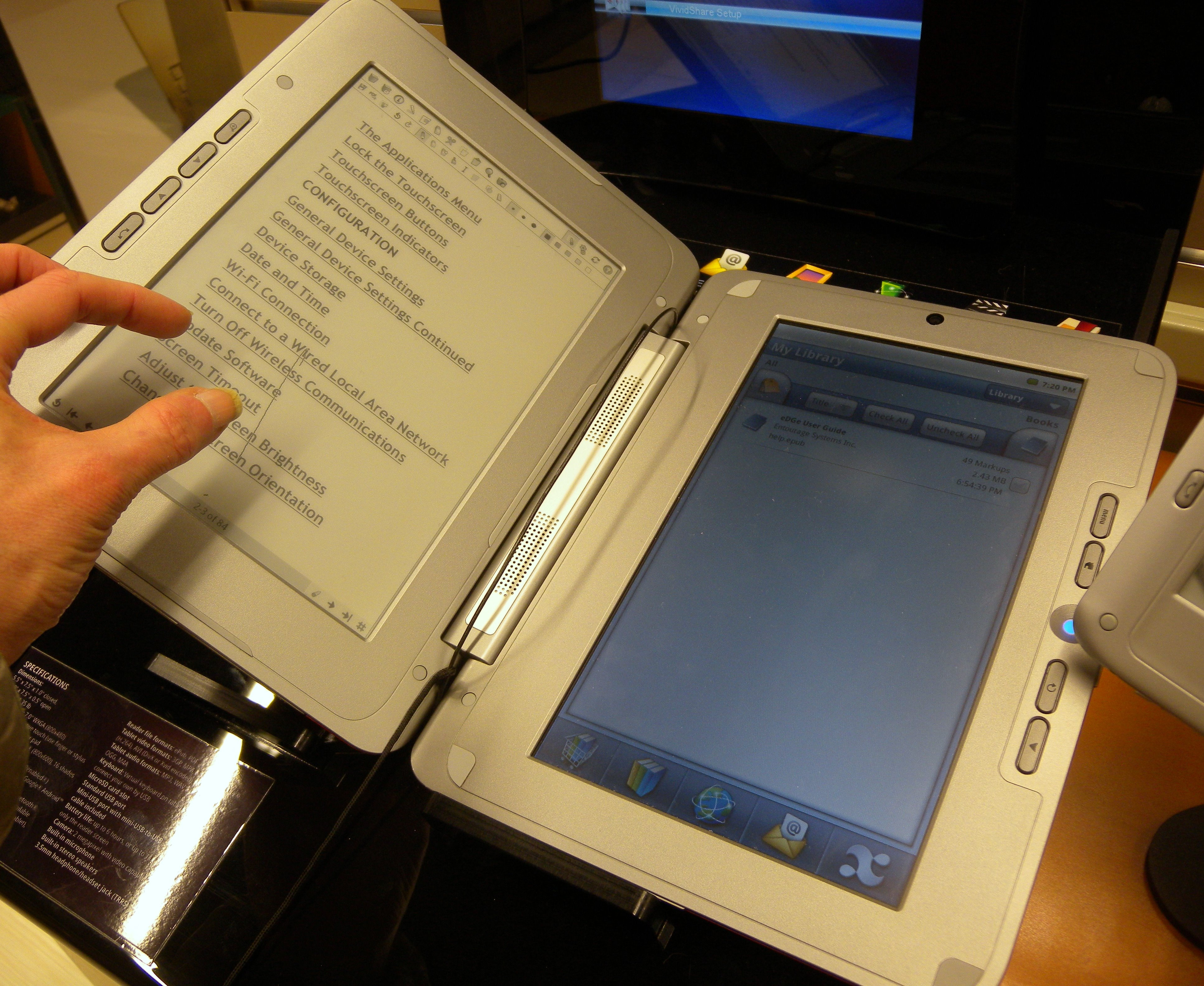 Entourage eDGe, this time showing both panels.